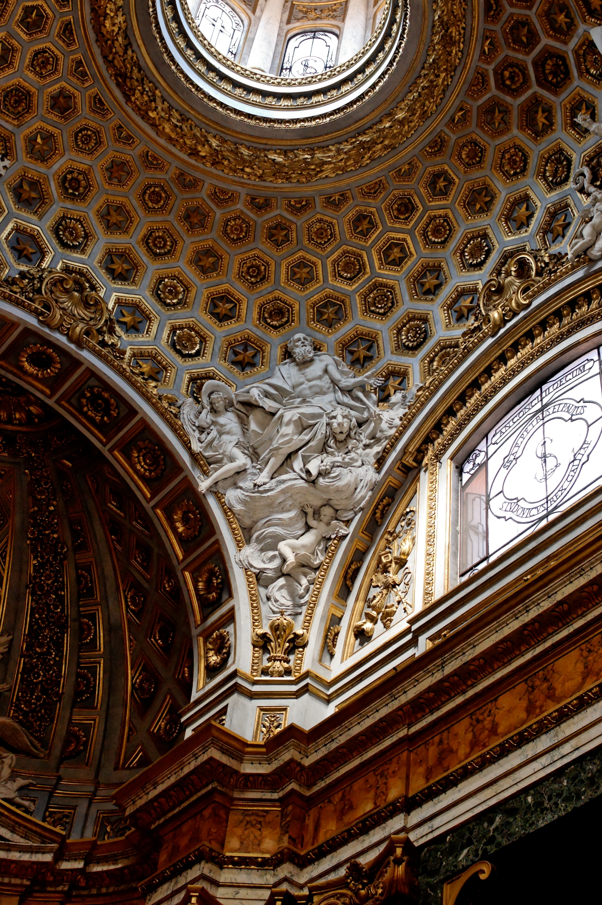 Cupola pendant from the church San Luigi dei Francesi (late 16th century) in Rome, Italy.